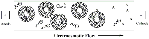 I made this file